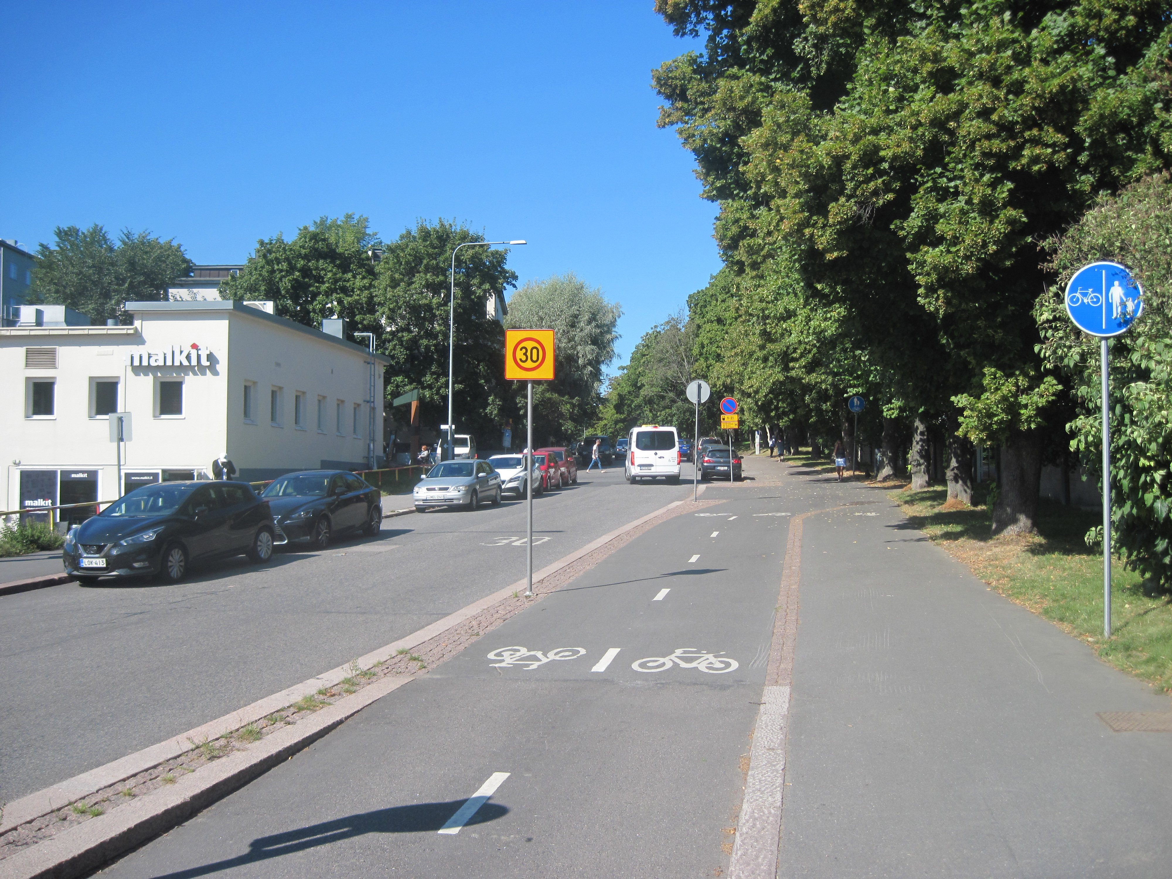 Streets in Helsinki